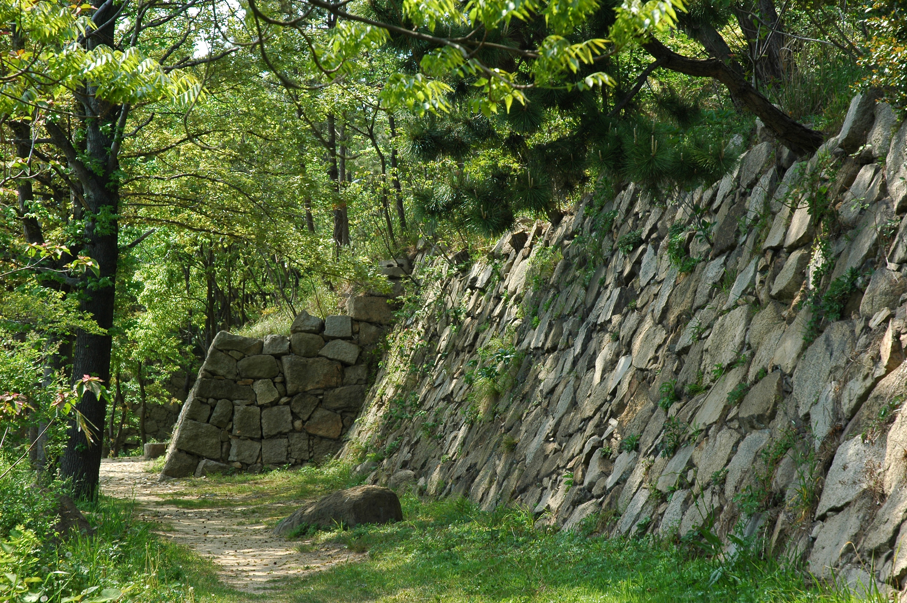 photo of Shimotsui Castle stone wall of the castle's south face